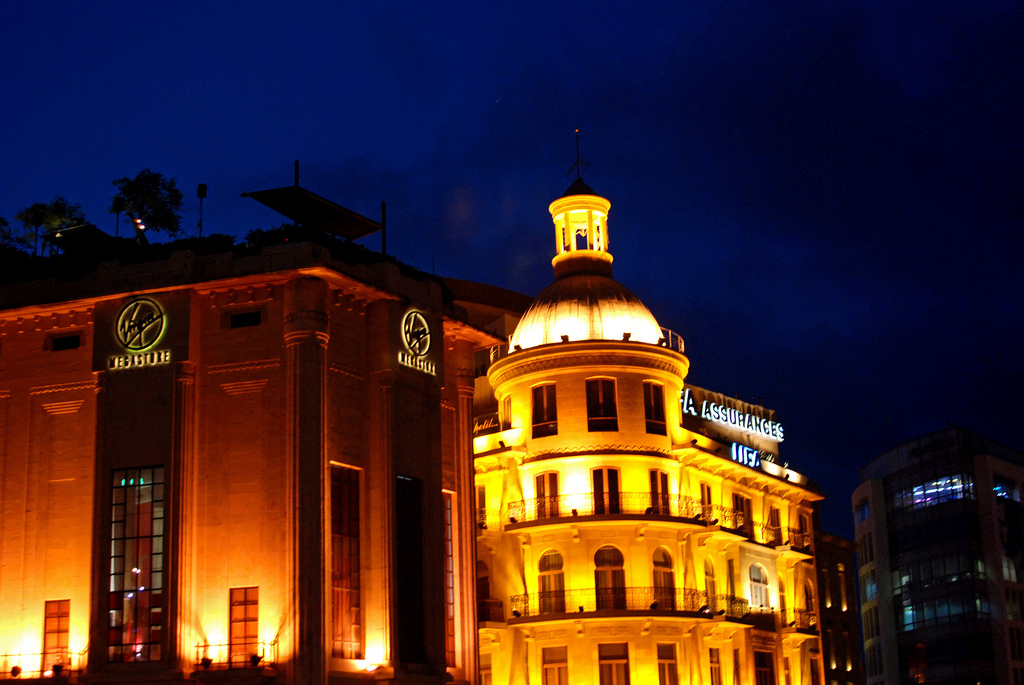 now, virgin mega store. off martyr's square, beirut, lebanon.